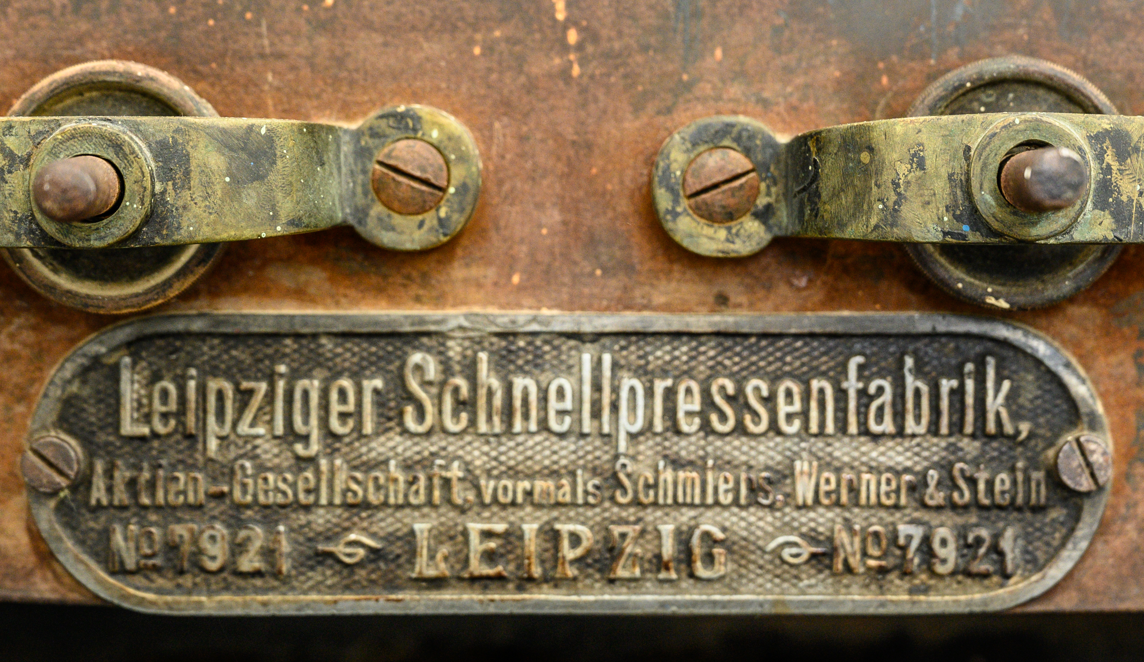 Nameplate printing machine